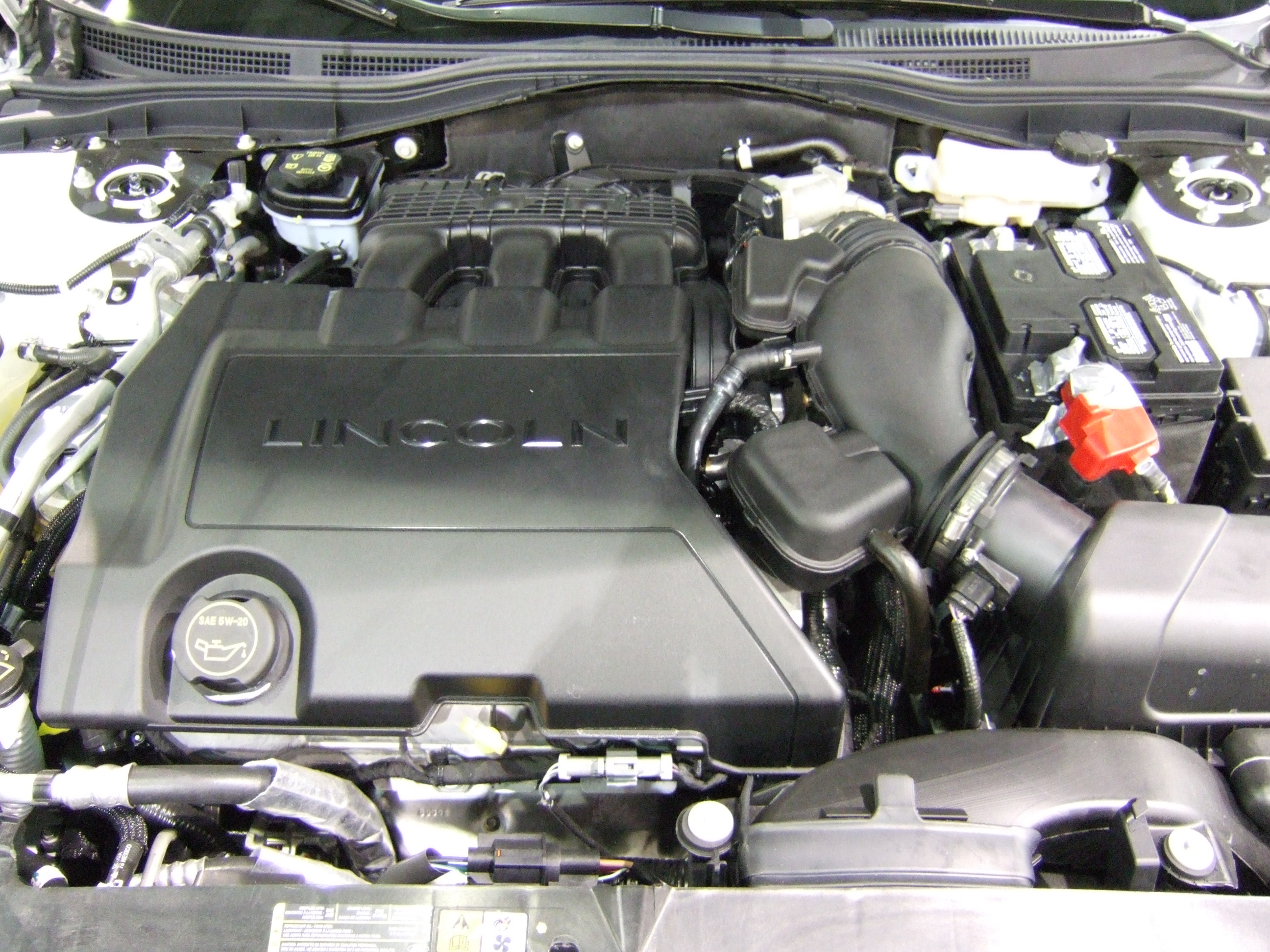 The 3.5L Duratec V6 in a 2007 Lincoln MKZ. Self made photo.